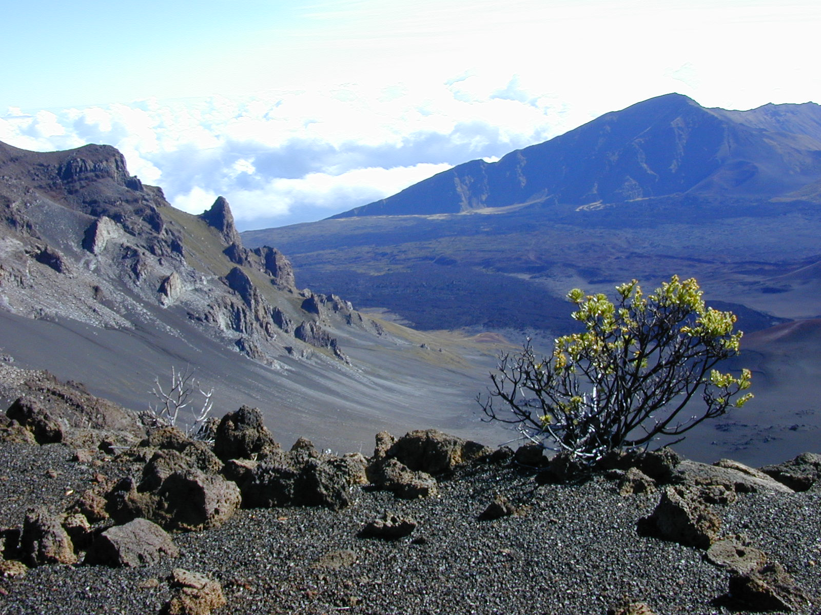 Dubautia menziesii (on West rim). Location: Maui, Kalahaku Haleakala National Park